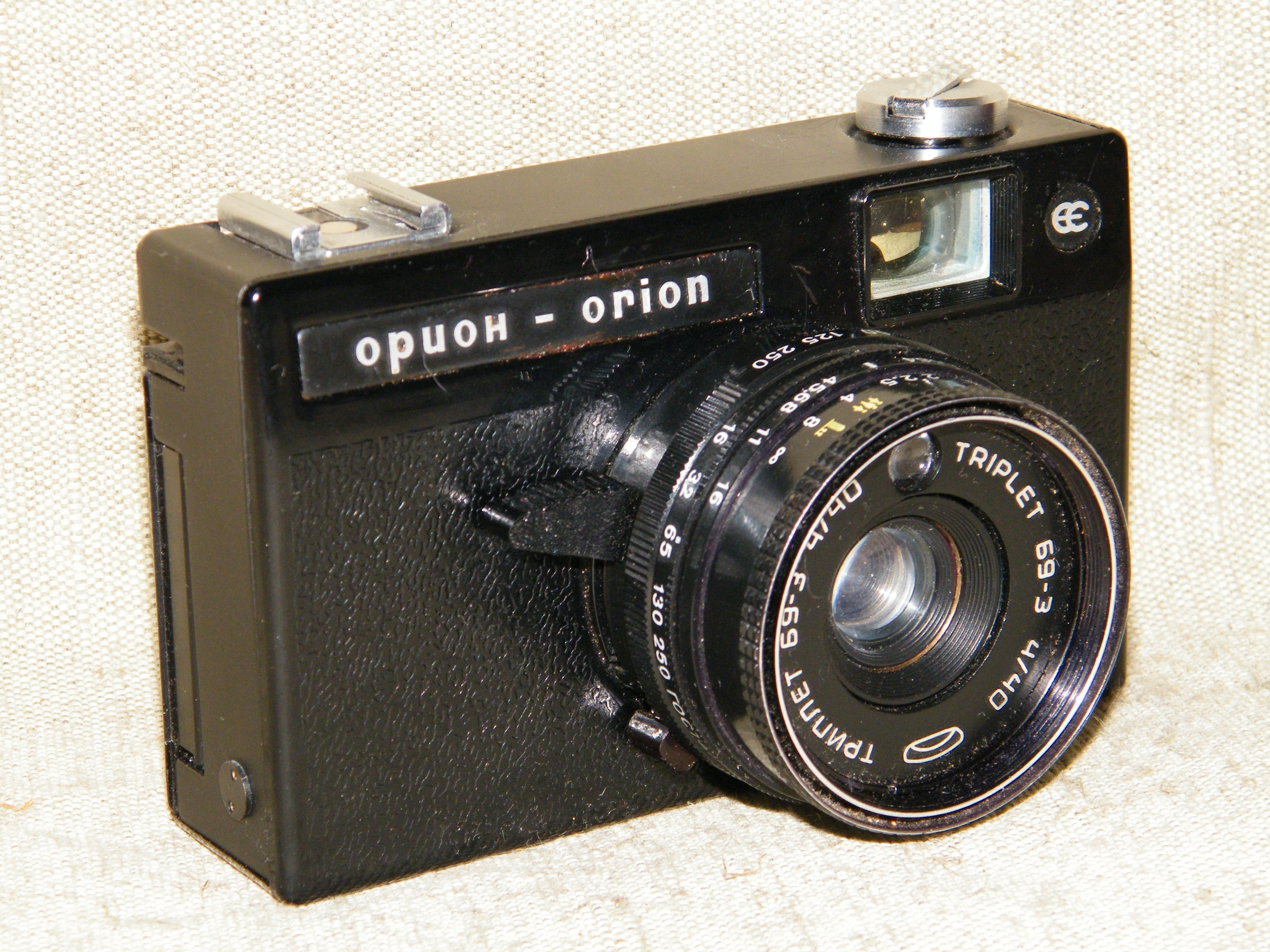 Orion EE